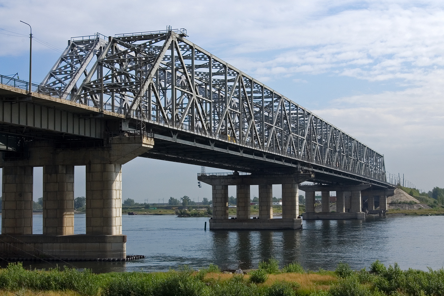 Most 777, the bridge over the Yenisei in Krasnoyarsk, Russia, view from the left bank.